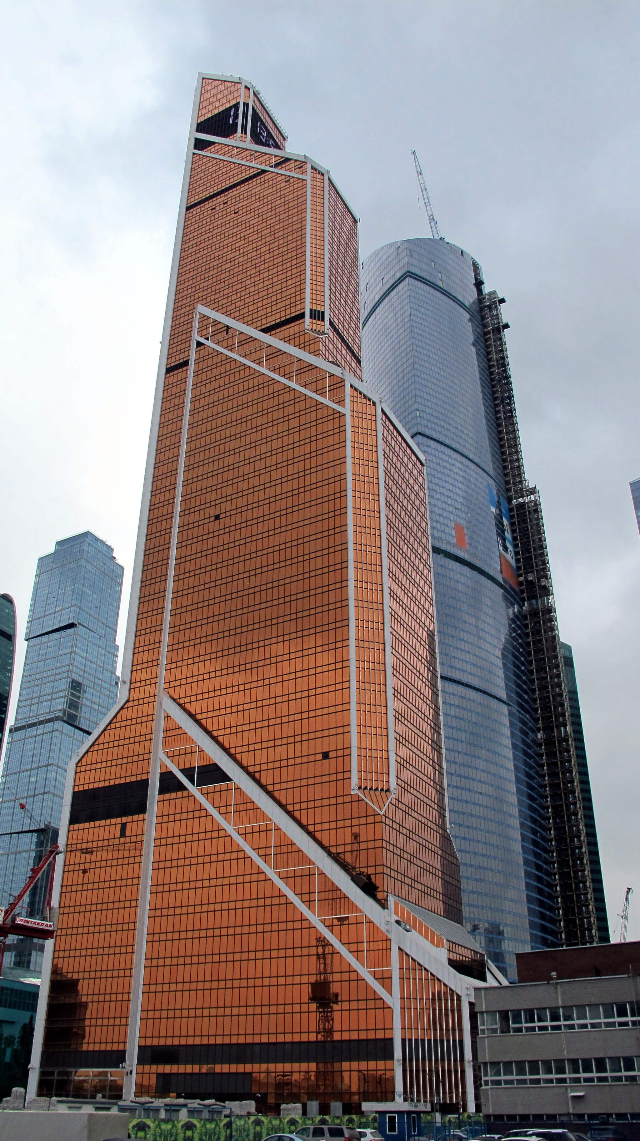 Wikitrip to Moscow International Business Center (MIBC; Moscow-City) 2016-03-22